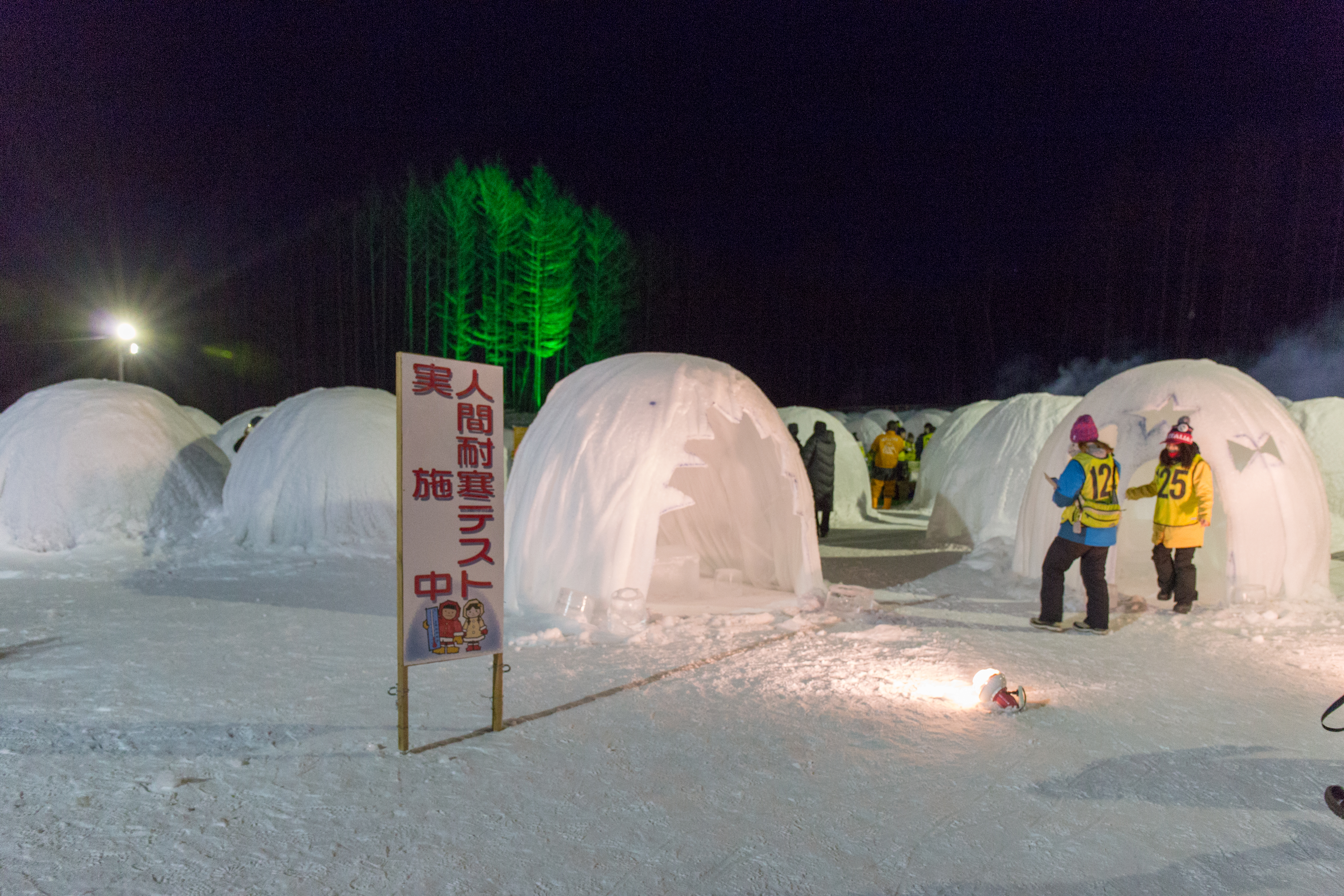 Snow domes (referred to as "Balloon Mansions") built for the Shibare Festival, where participants of cold endurance contest accommodate themselves overnight